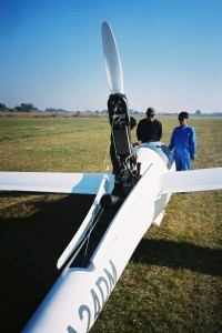 At Itakura Gliderport, Gunma, Japan. A open class tandem seat sailplane, Nimbus 4DM, shows its engine pylon extended.